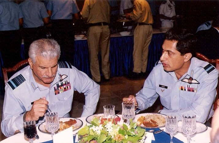 Air Commodore Kaiser Tufail (R) with Air Chief Marshal Shaheed Mushaf Ali Mir (L).